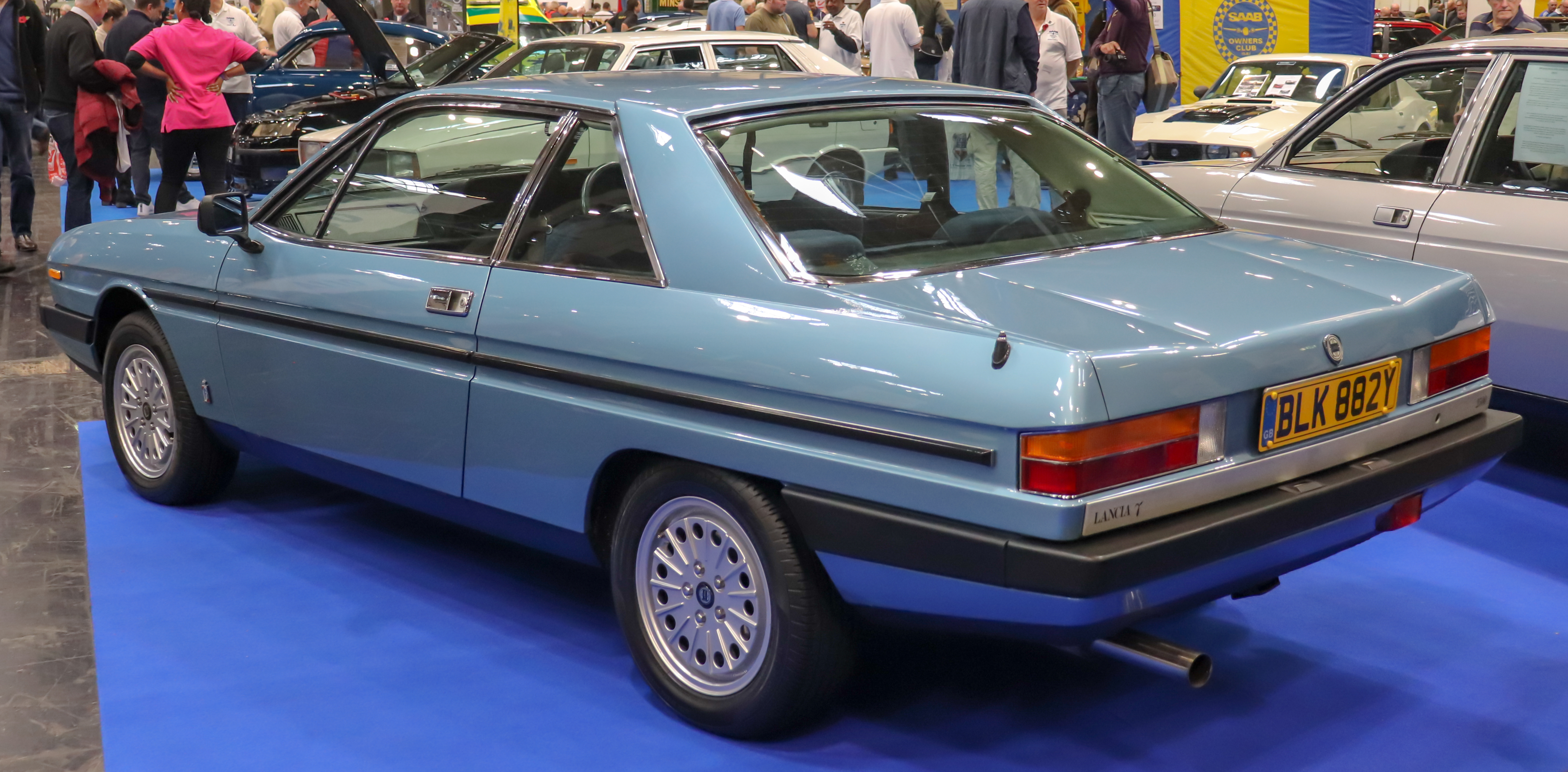 1982 Lancia Gamma Coupe Fi Automatic 2.5 Rear Taken at the NEC Classic Motor Show 2018